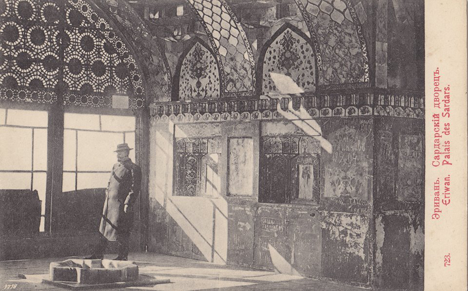 Sardar palace in Iravan. Not exist now.